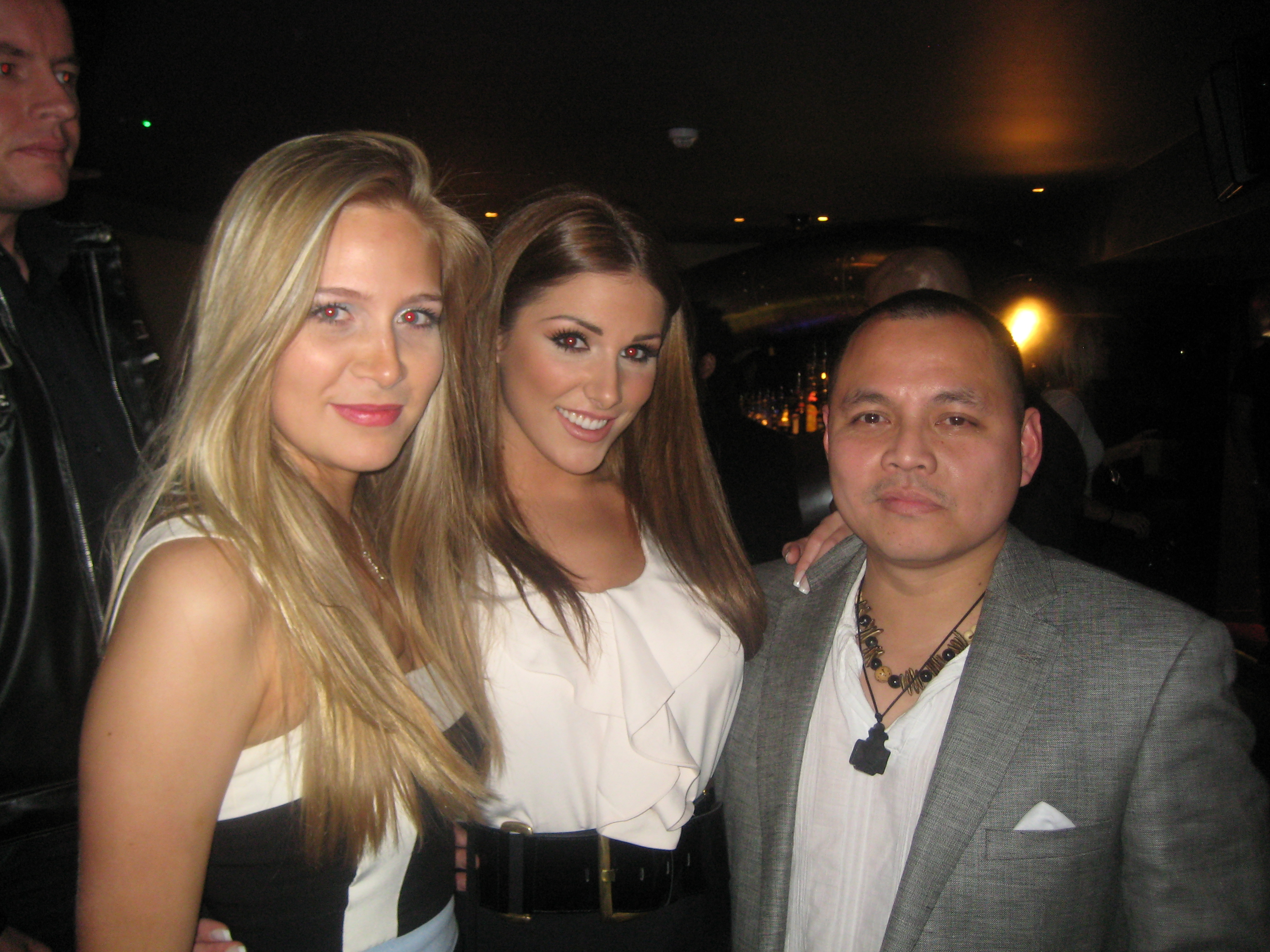 Lucy Pinder (centre) and friends. Nuts Party Feb 2009